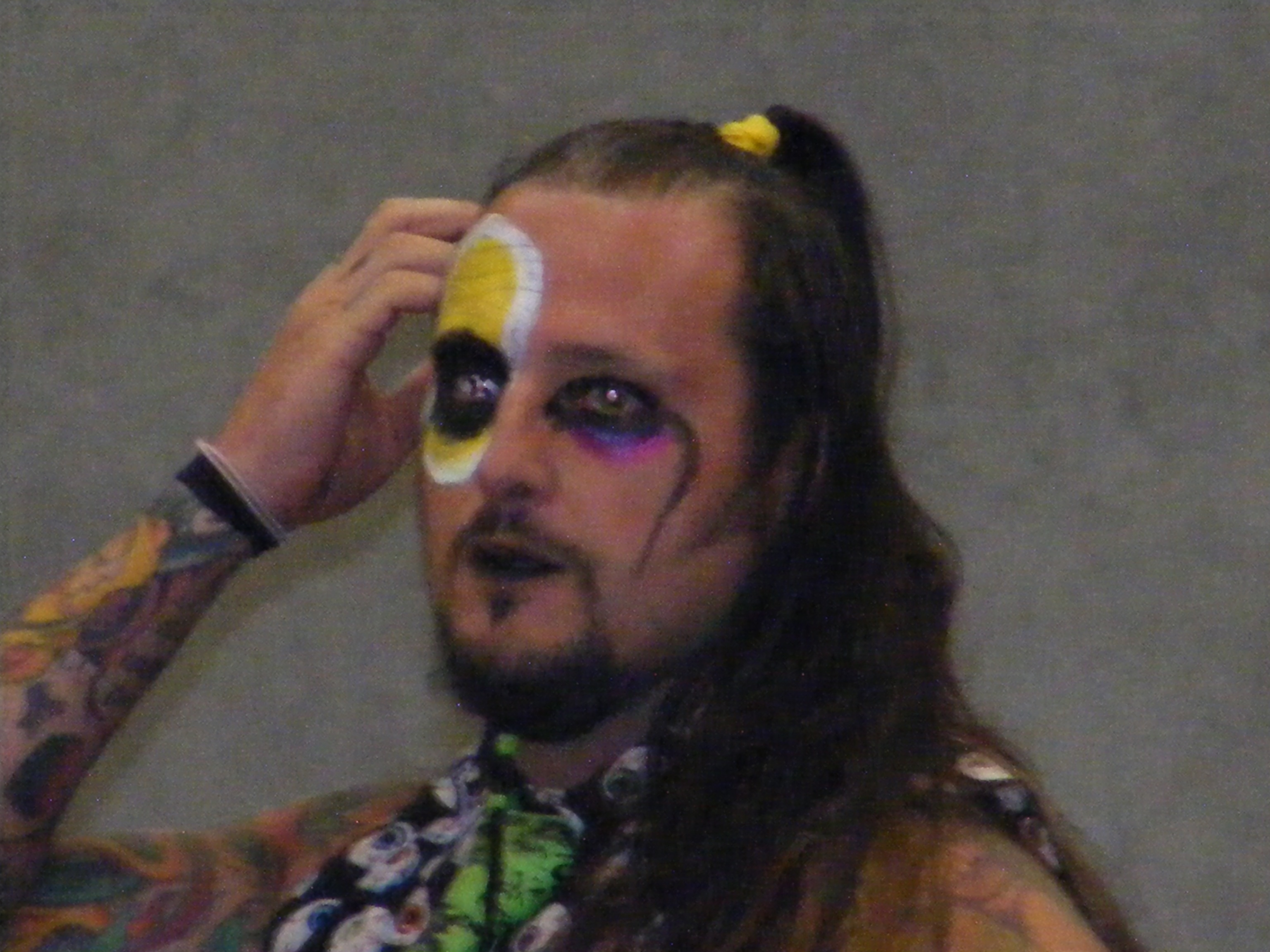 Sinn Bodhi at a Viva La Lucha show in July 2011.